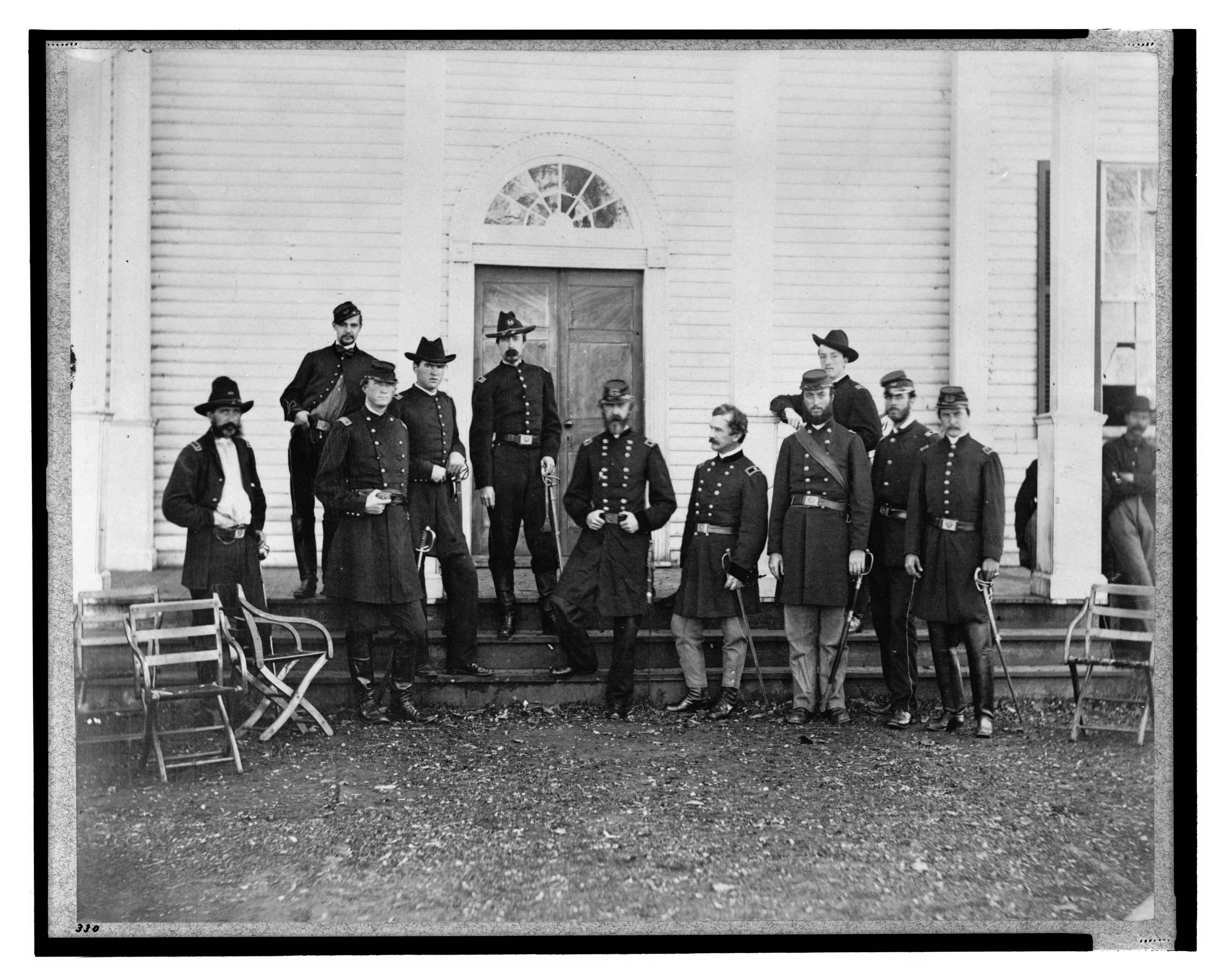 Major General George Meade and staff posed in front of a building.